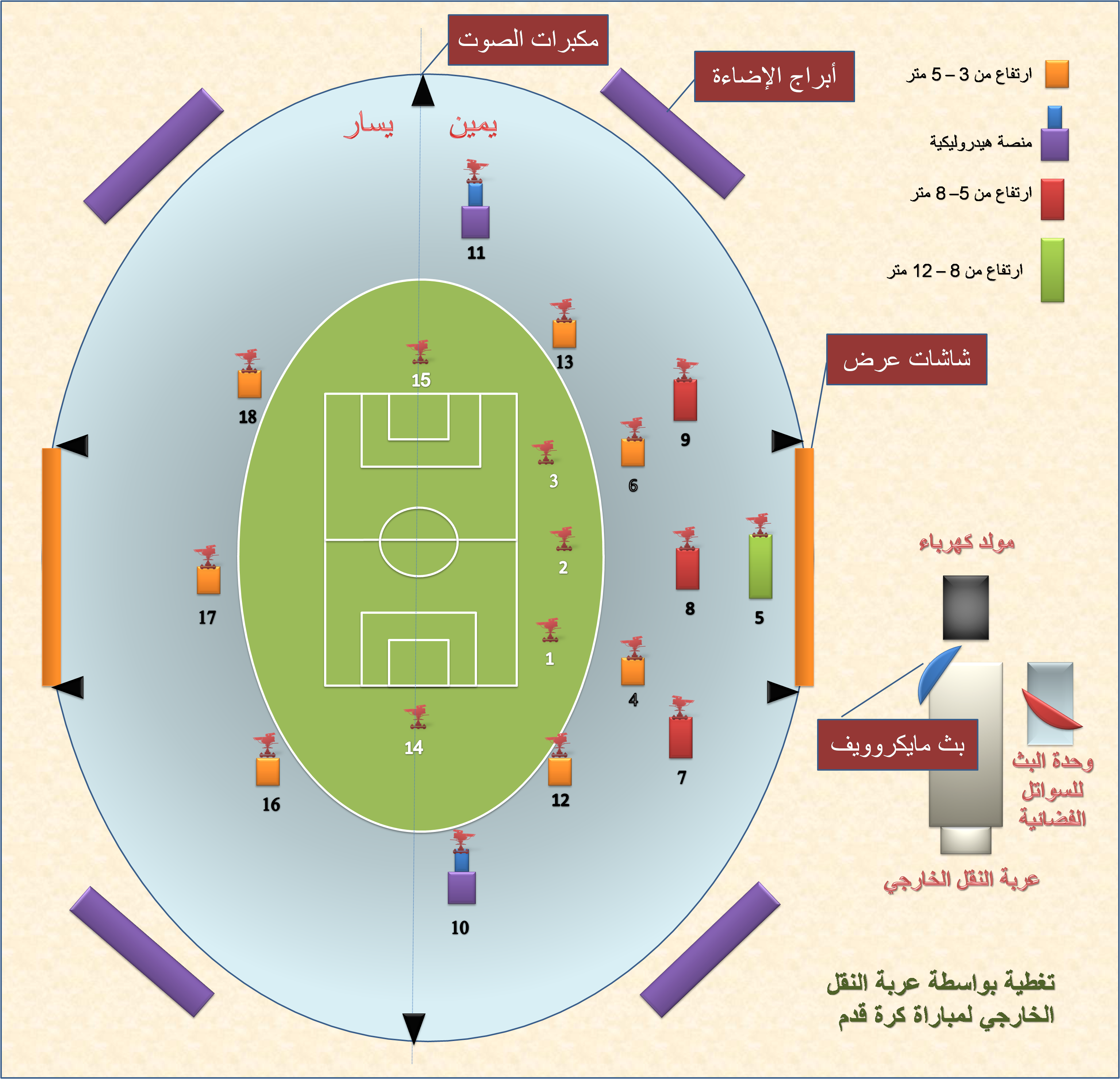 Drawing explaining in Ararbic the layout plan for TV coverage of a soccer game